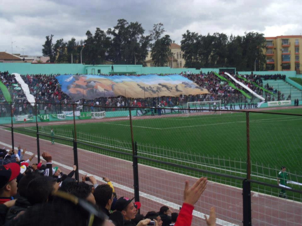 Tifo USMBlida vs RC Arbaa